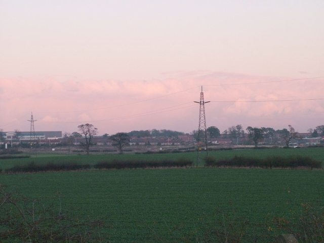 View of West Park Development, Darlington. Hundreds of acres of brown and greenfield land to the west of Darlington have been developed in the last few years. This view is from the Cockerton to Walworth road. The new West Park Psychiatric Hospital dominates to the left of the scene.